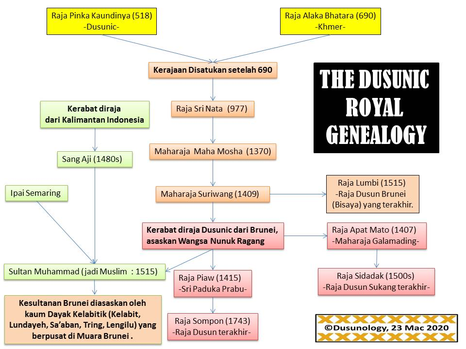 The Ancient Dusun Royal Geneology